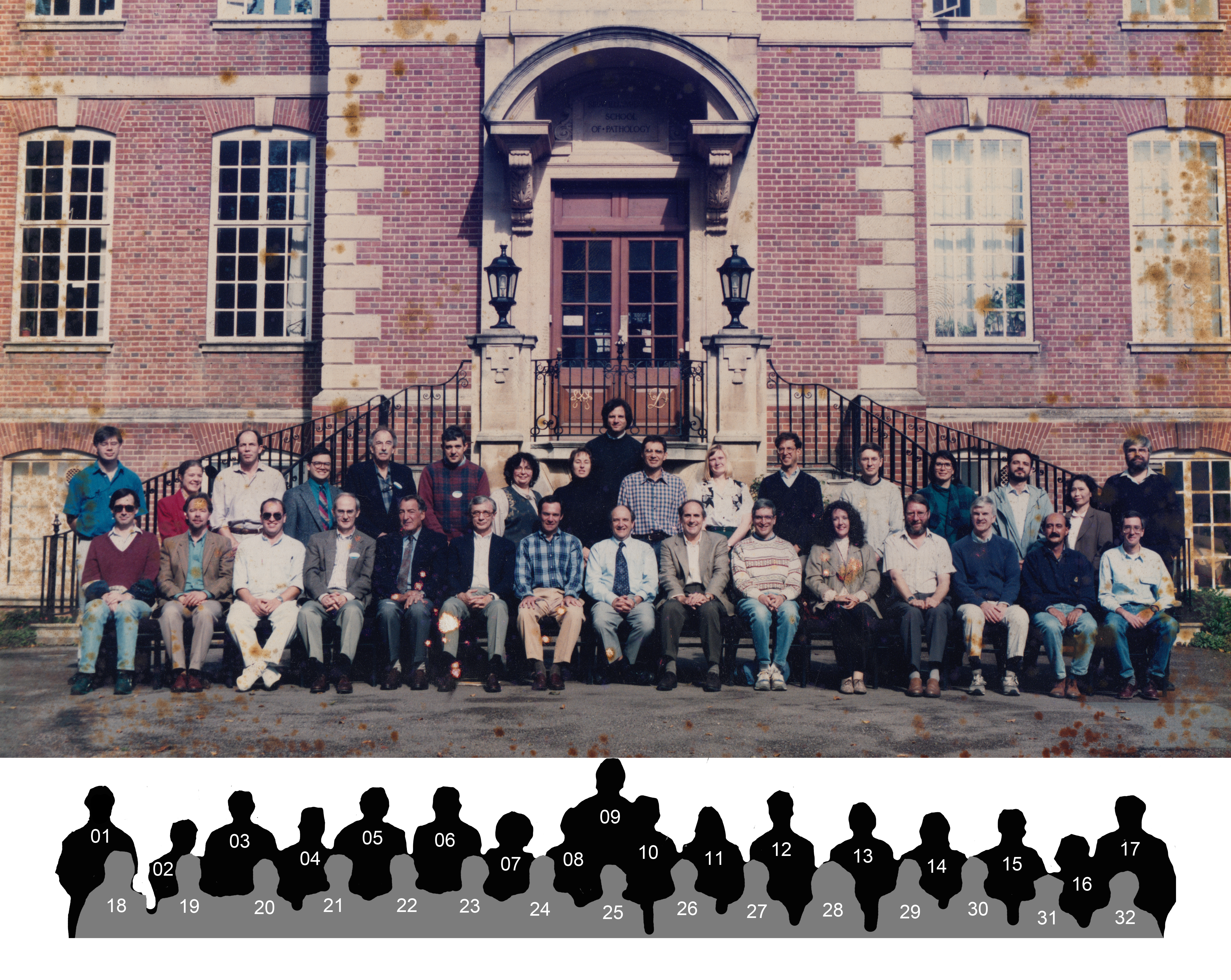 Sir William Dunn School of Pathology, Oxford, 1994